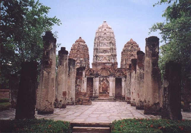 Sukhothai Historical Park, Thailand